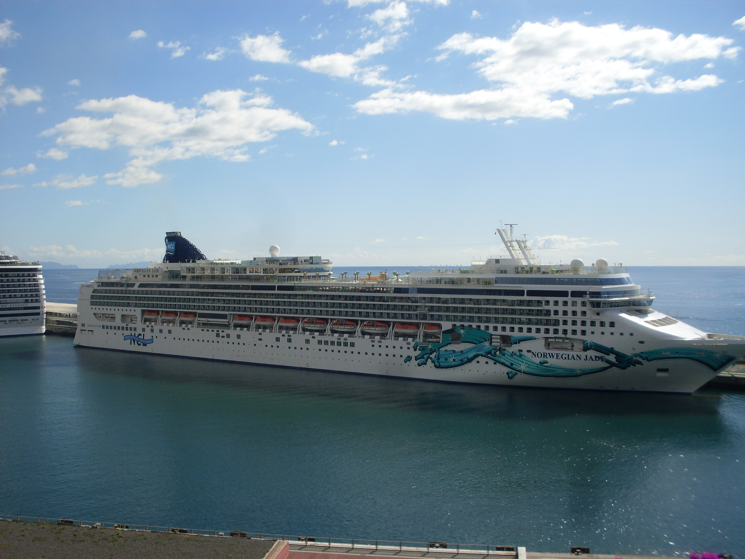 Raw upload, to be categorized and described